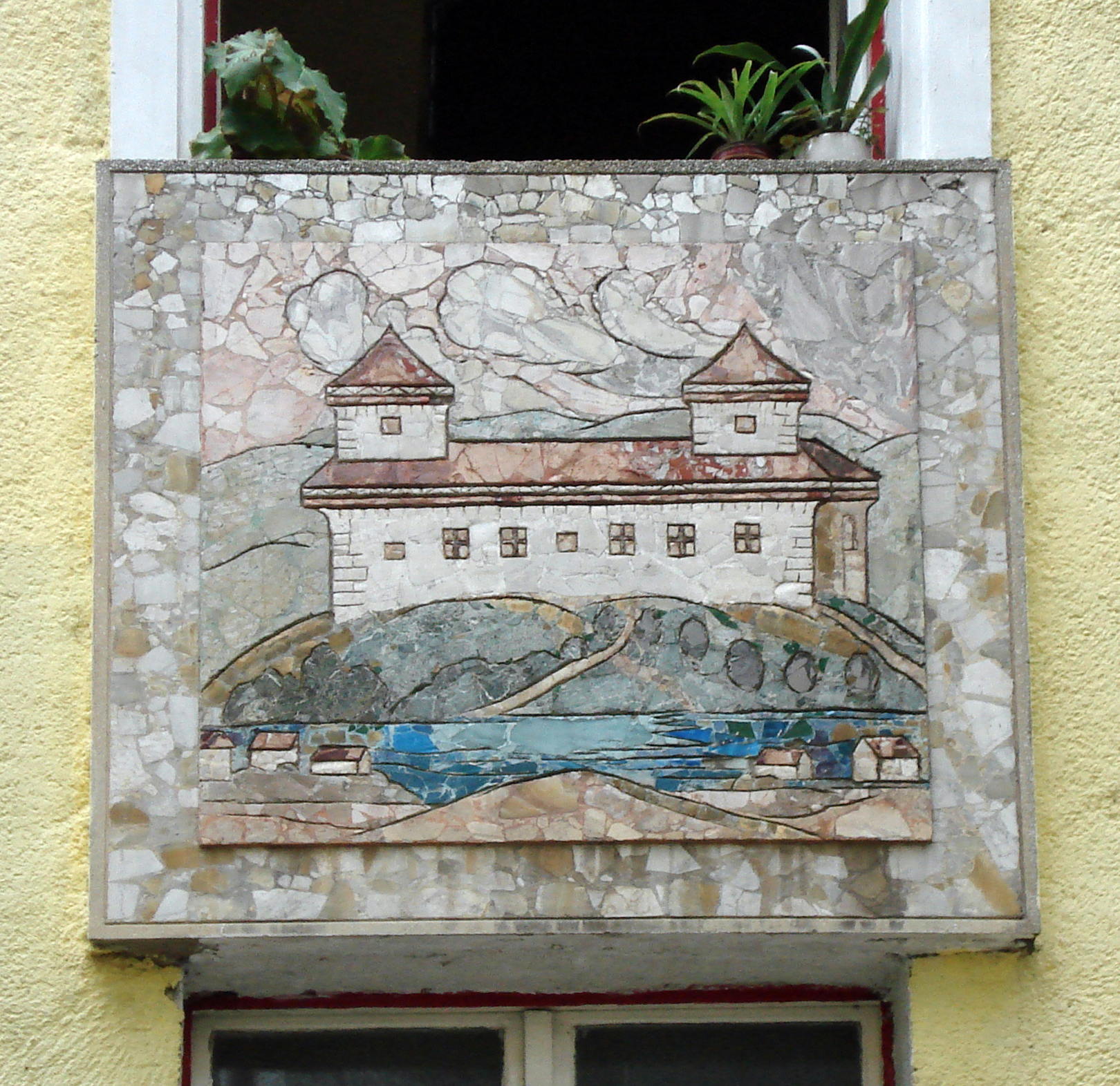 Eszter Mattioni: Diósgyőr Castle. Mosaic. Street Szinyei Merse Pál, Miskolc, Diósgyőr, Hungary